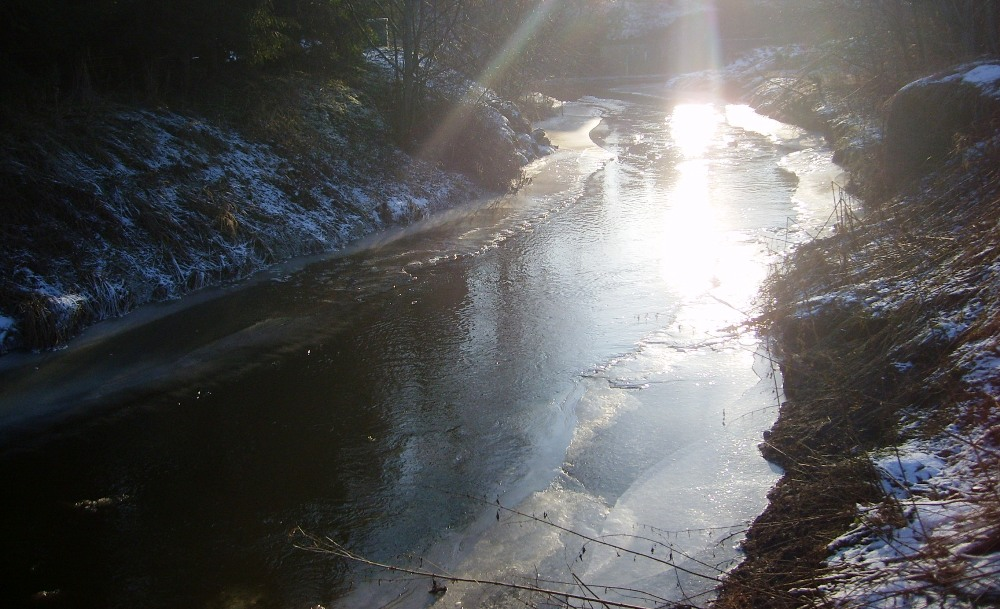 Slocene River